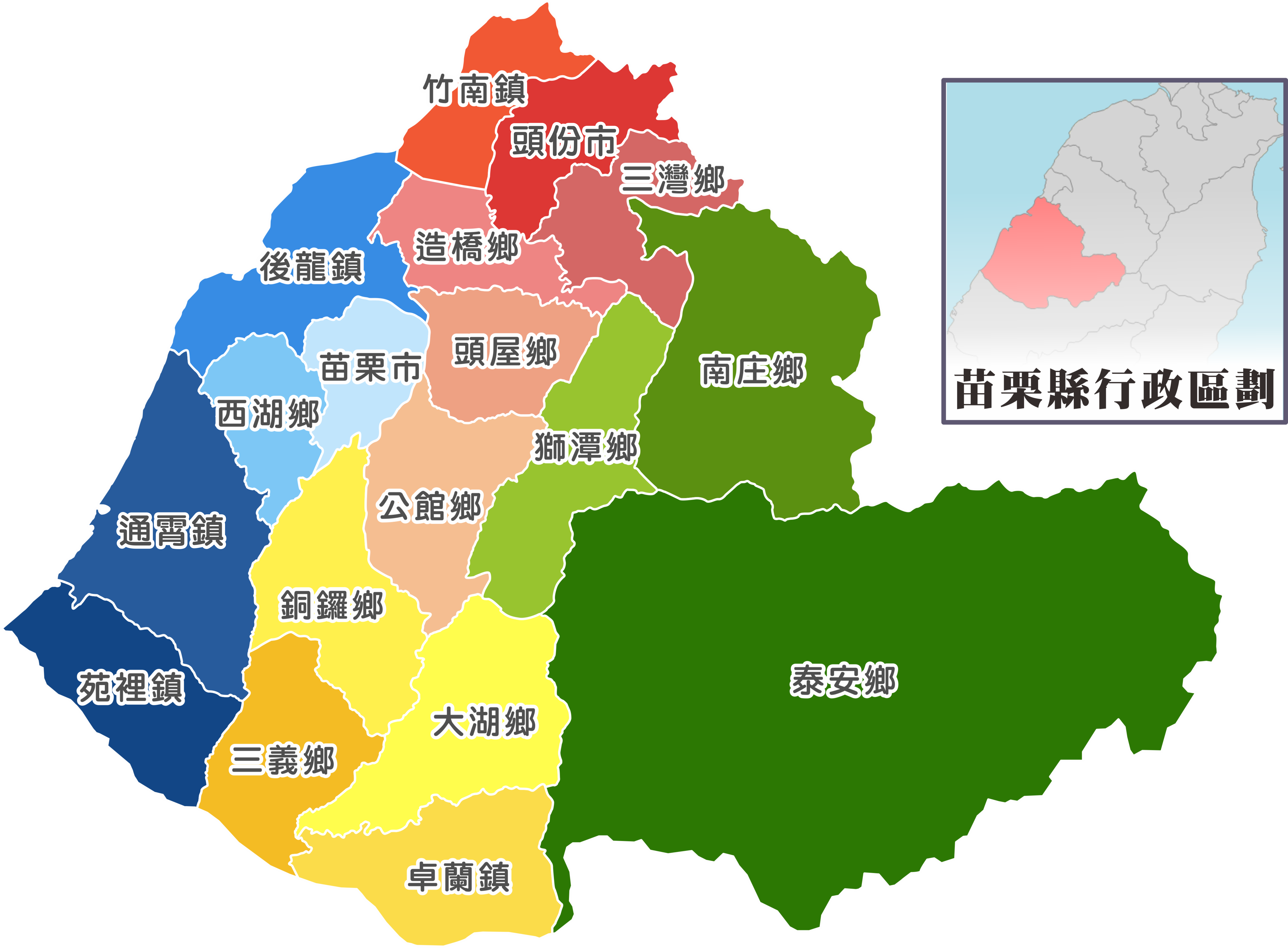 Miaoli County